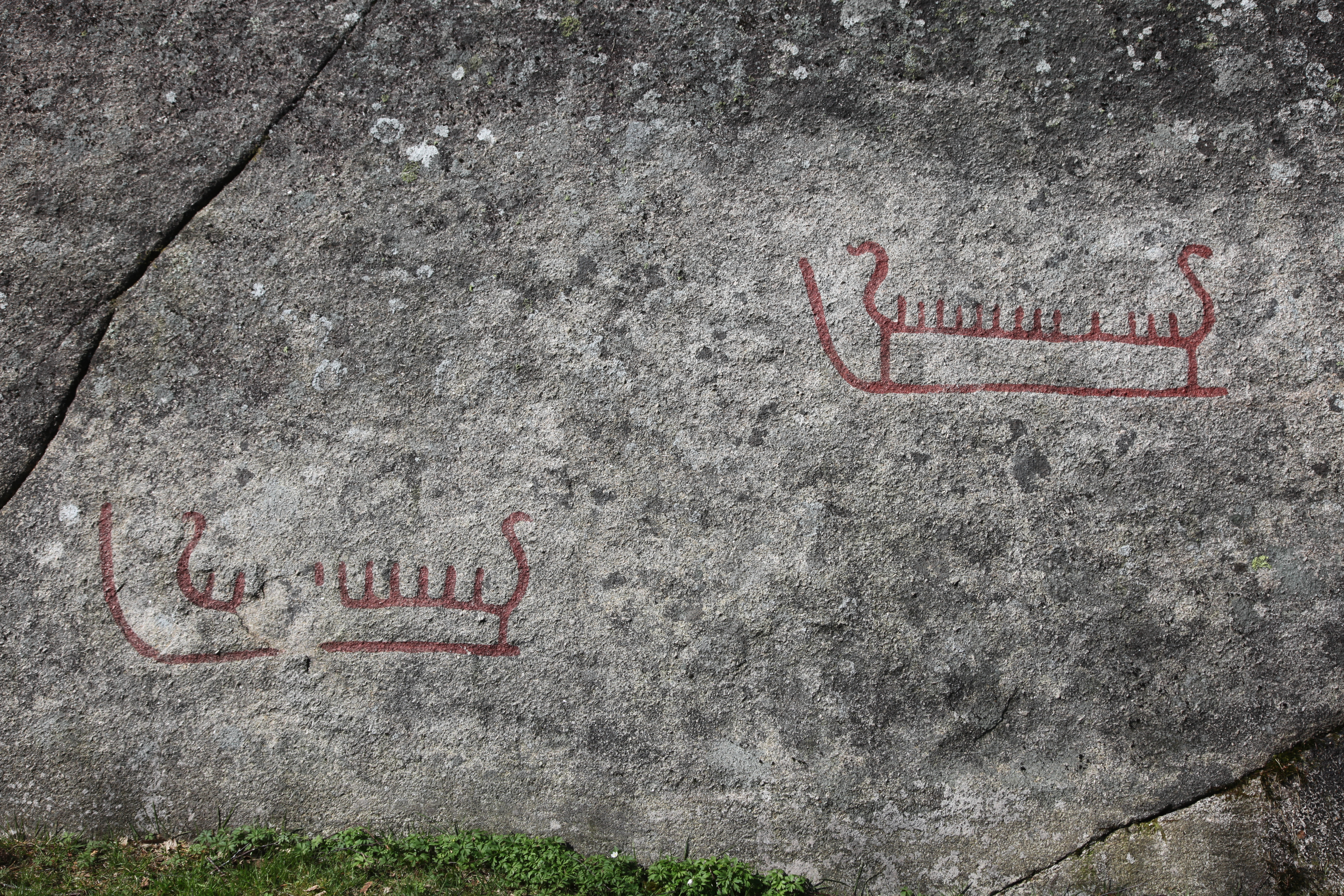 Bjoensatdskipet site is near Oslo in Sarsborg Norway. The longest skip is over 4 meter long. From bronze age.